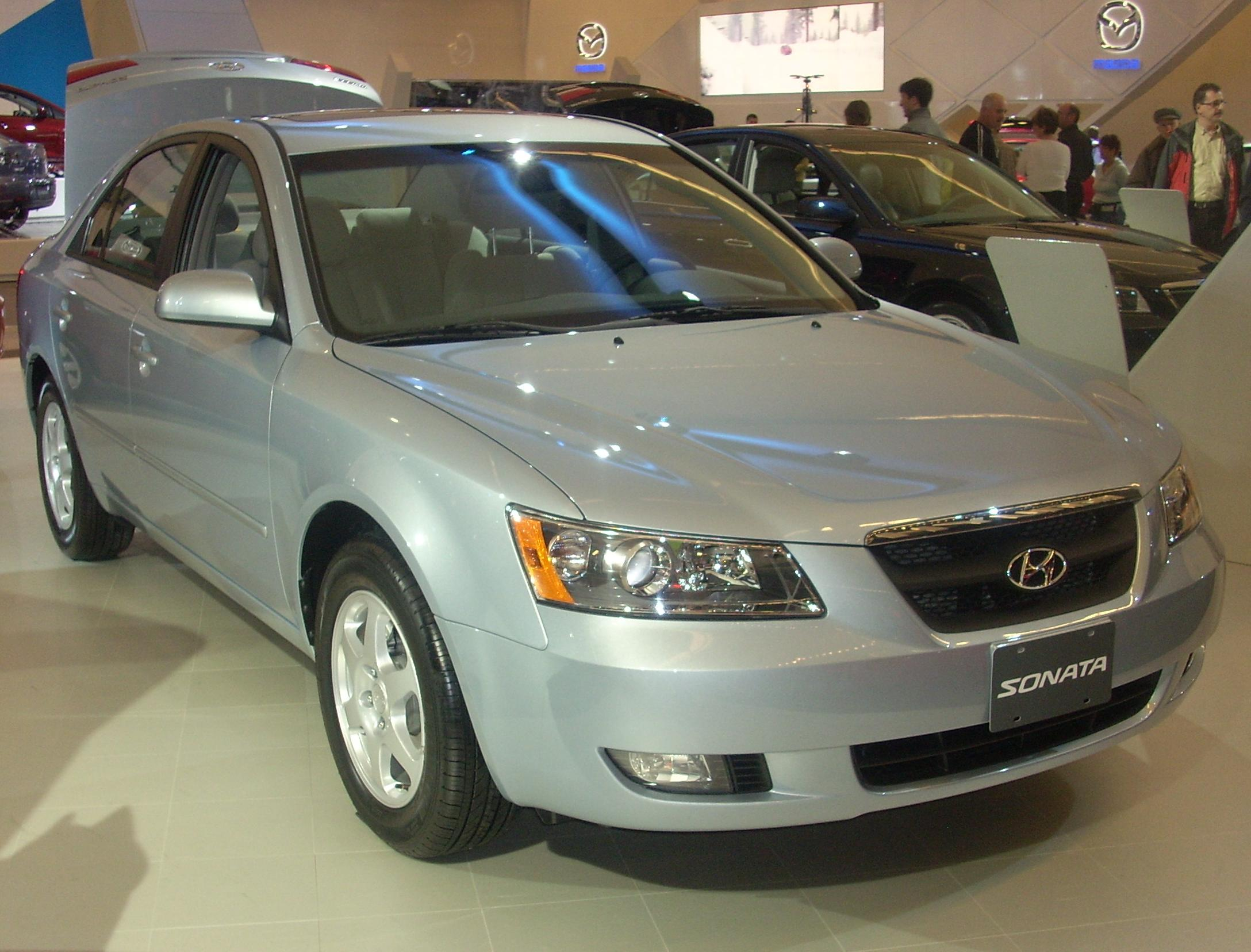 2008 Hyundai Sonata photographed at the Montreal Auto Show.